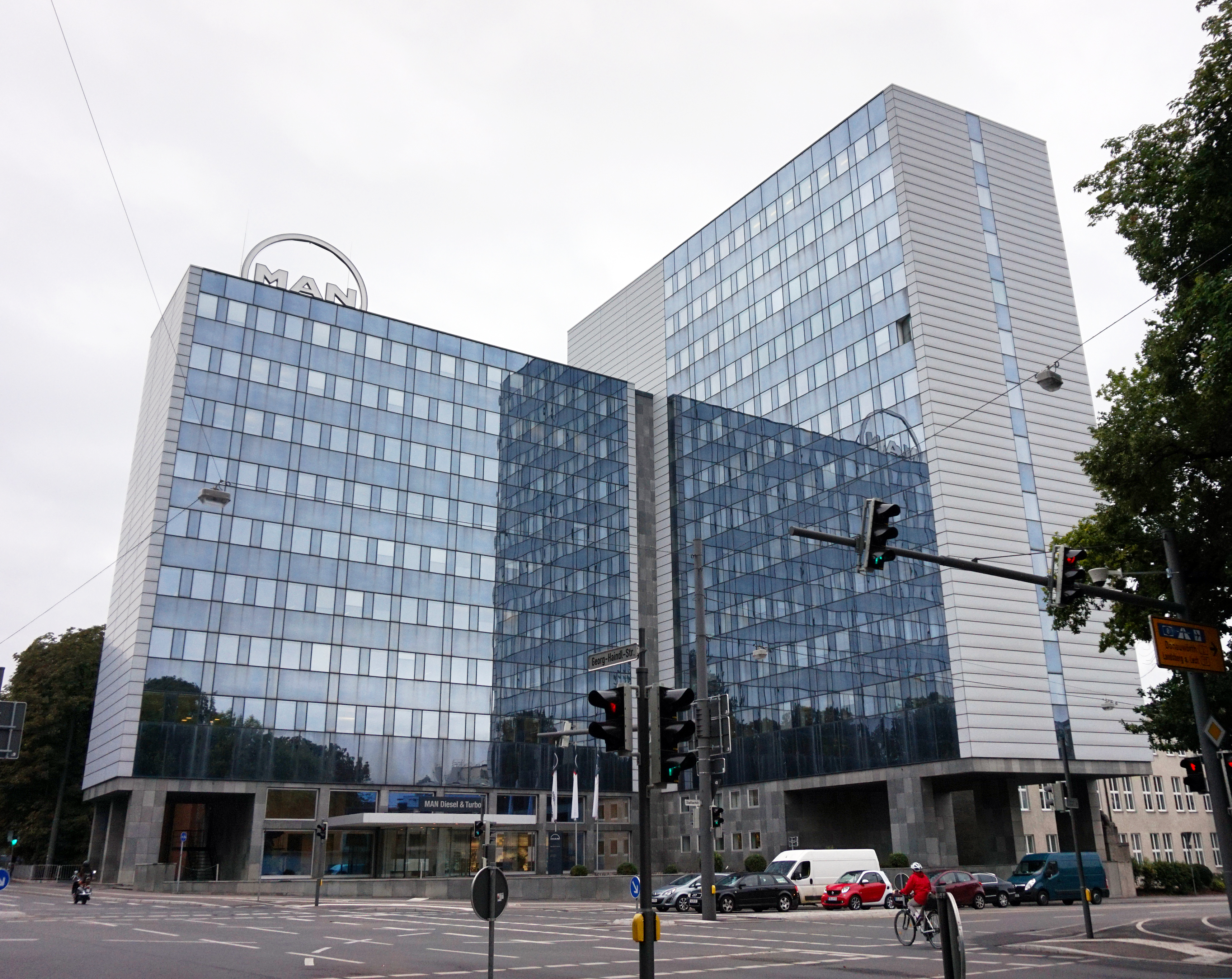 MAN in Augsburg, Germany.This photograph was taken with a Sony ILCE-5000